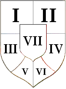 Numbers of the shield quarters of Arms_of_the_Hungarian_Lands_1915